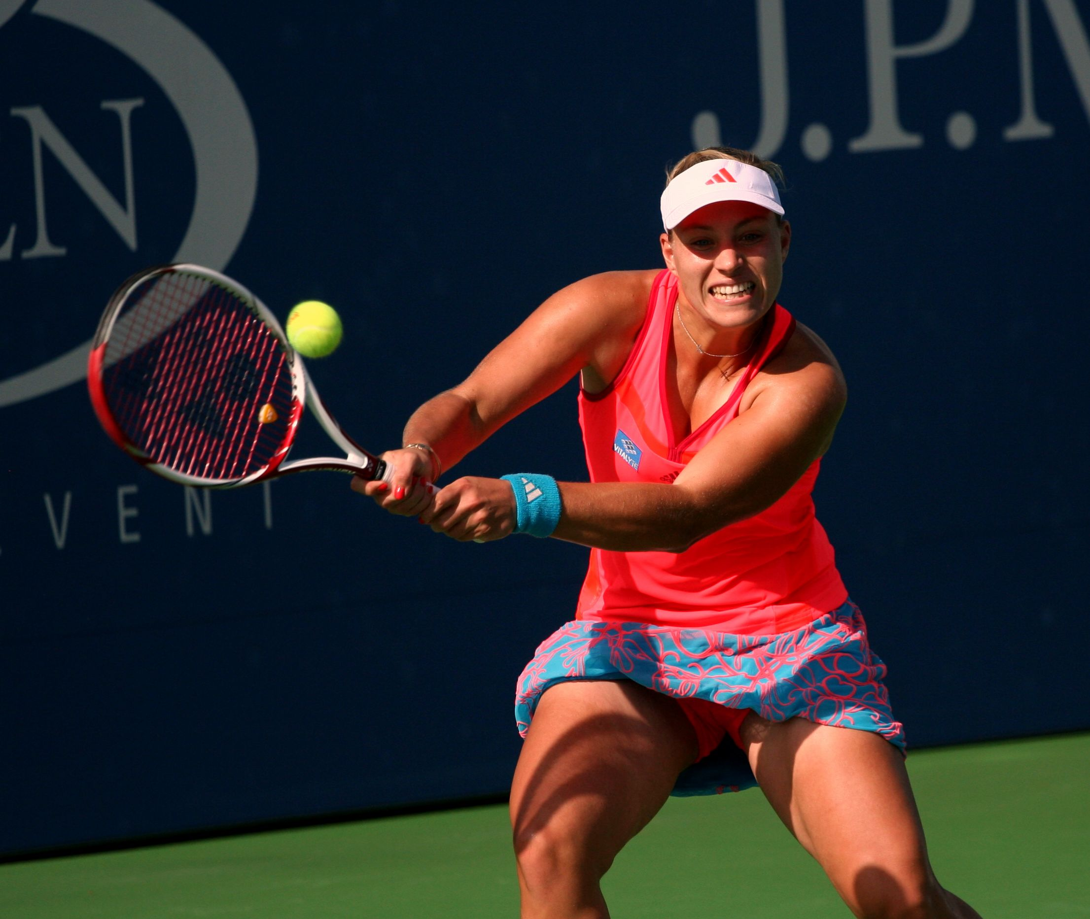 Angelique Kerber at the 2011 U.S. Open - Thursday, Sept. 8, 2011